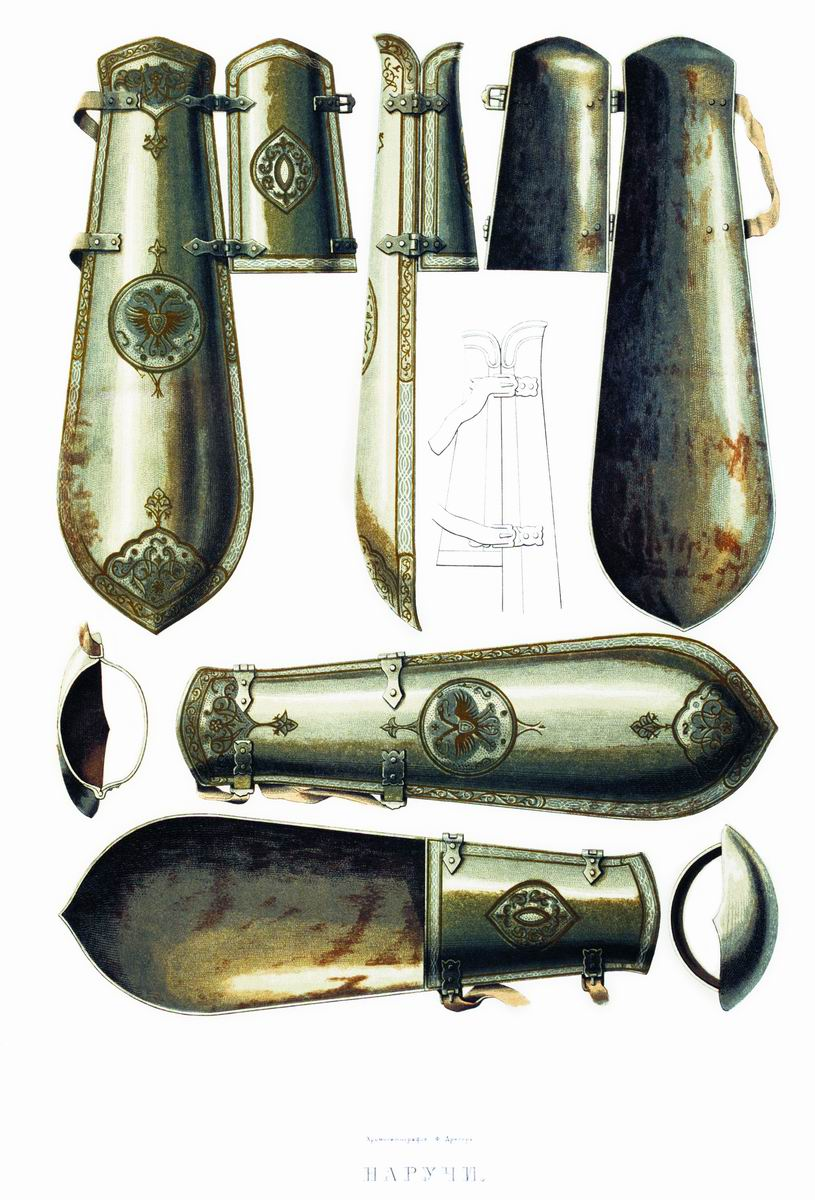 Arm-protection